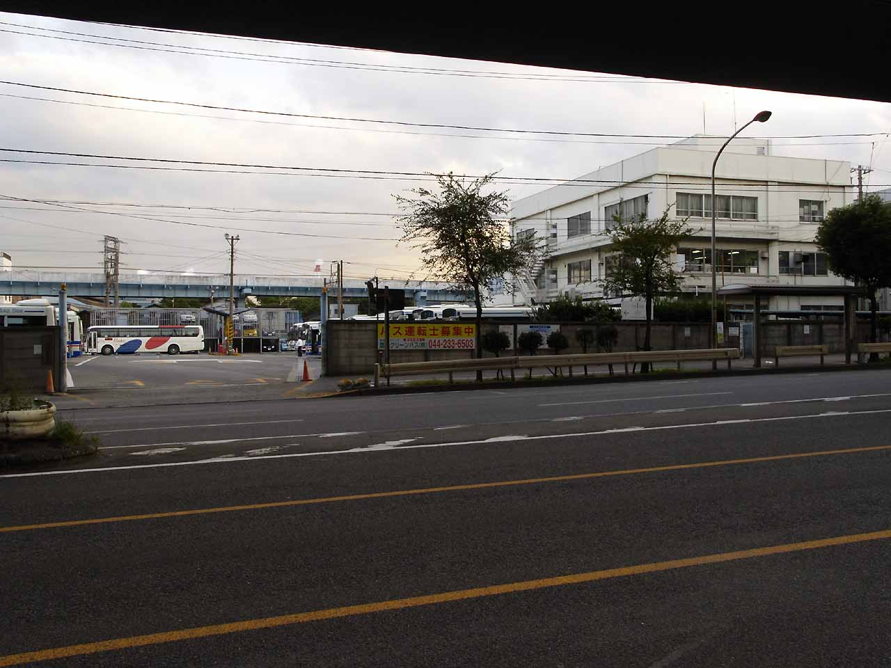 Kawasaki Tsurumi Rinko Bus Hamakawasaki Dept.